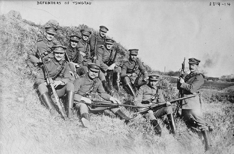 Volunteers from the German Prinz Heinrich Kompagnie of the Shanghai Volunteer Corps, at Tsingtao in 1914.